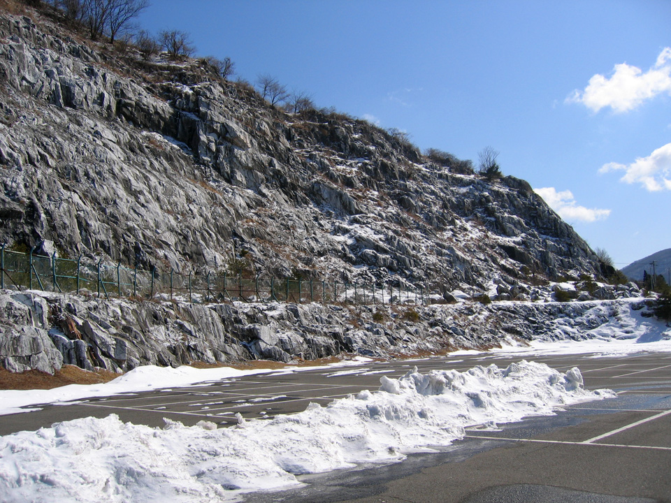 Bluff of crystalline limestone, parking of Abukuma-do.